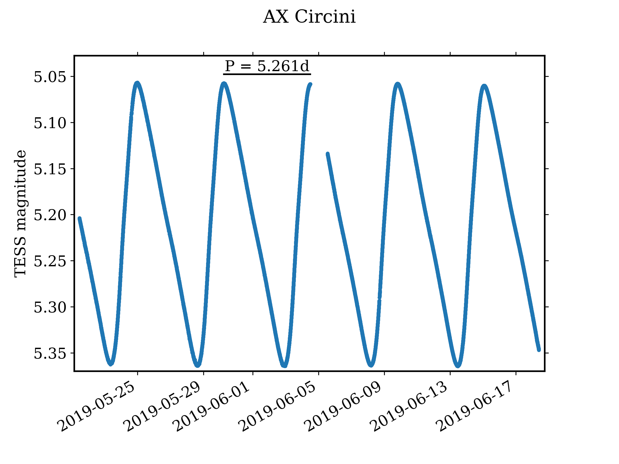 Lightcurve of the classical Cepheid variable AX Circini recorded by NASA's Transiting Exoplanet Survey Satellite (TESS).